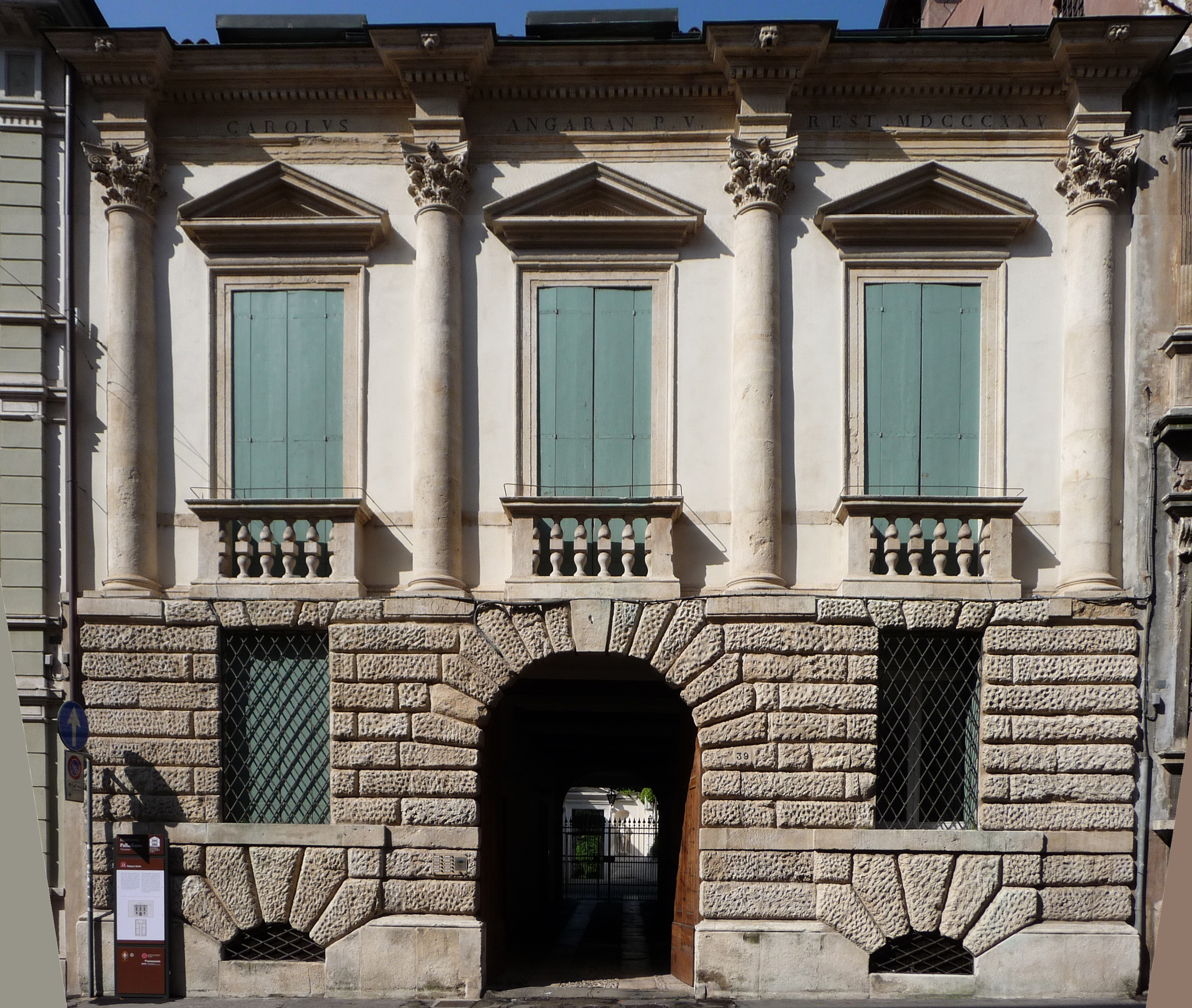 Palazzo Schio is a patrician palace Vicenza of 16th century. Its facade was designed by Andrea Palladio in 1560.